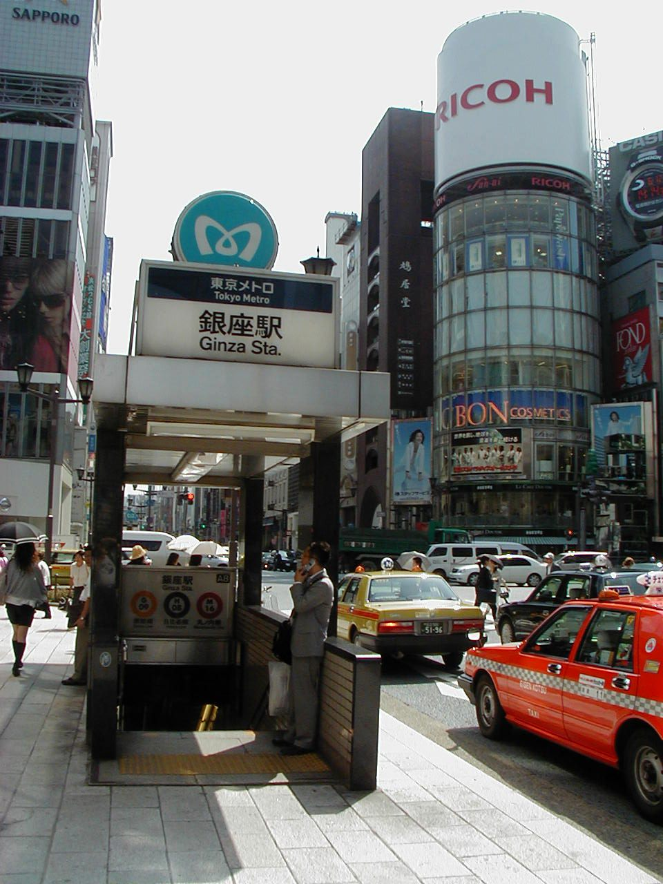 Entry stair to Ginza Metro Station in Tokyo at northeast corner of central Ginza intersection; San'ai building visible in background